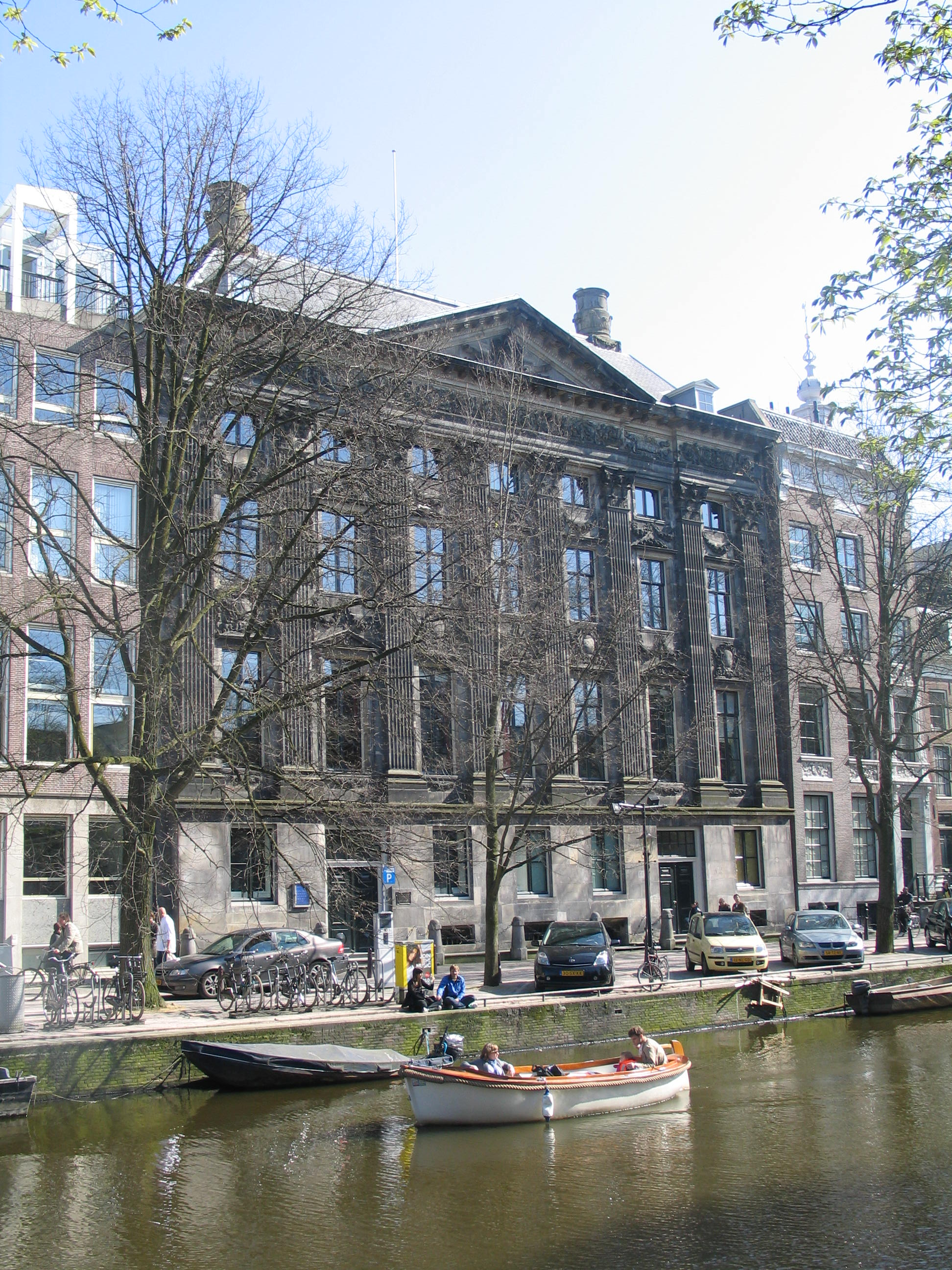 Trippenhuis